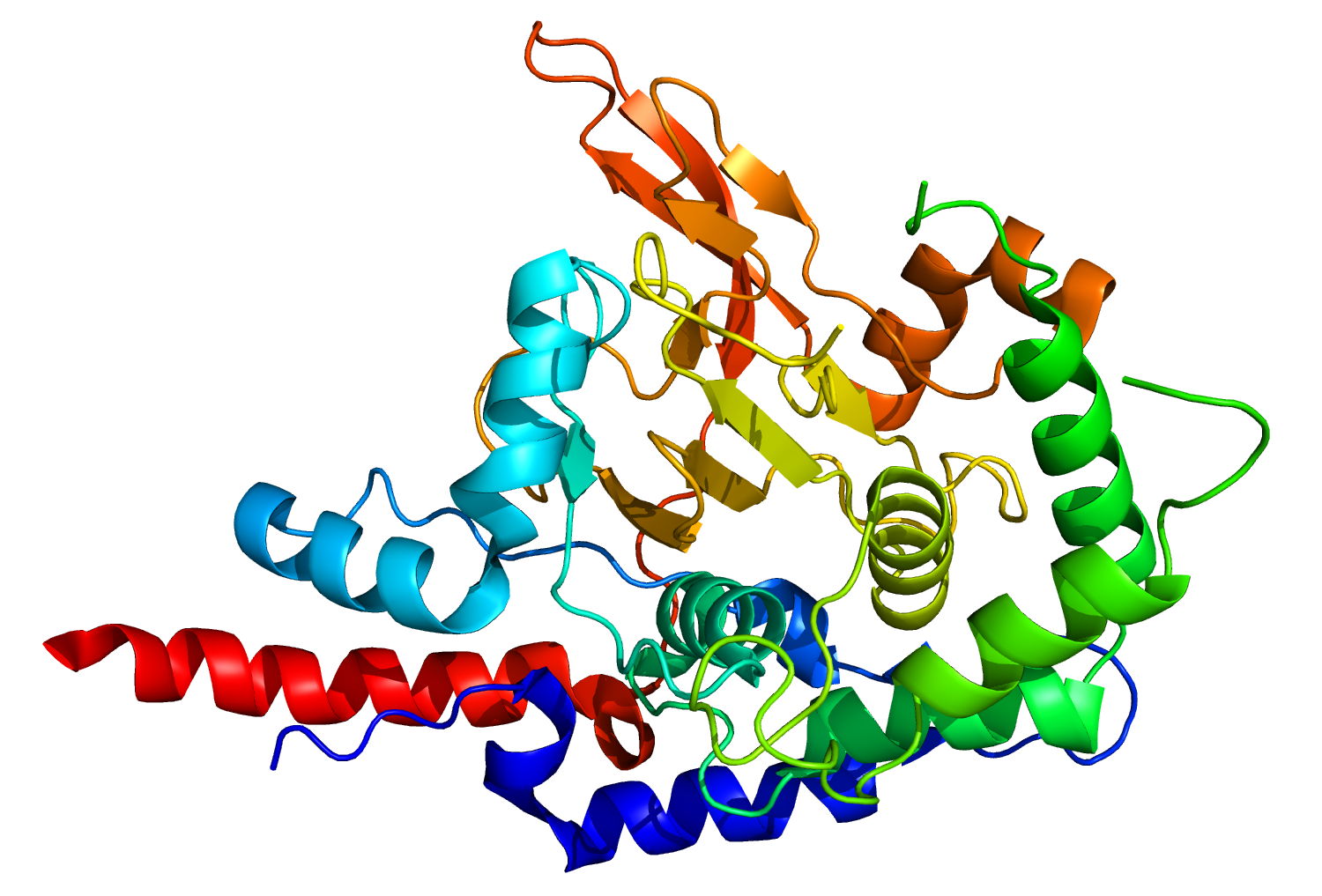 The strucutre of OTU (ovarian tumor) domain in A20/TNFAIP3. Image was created using PyMOL from PDB id 3DKB.